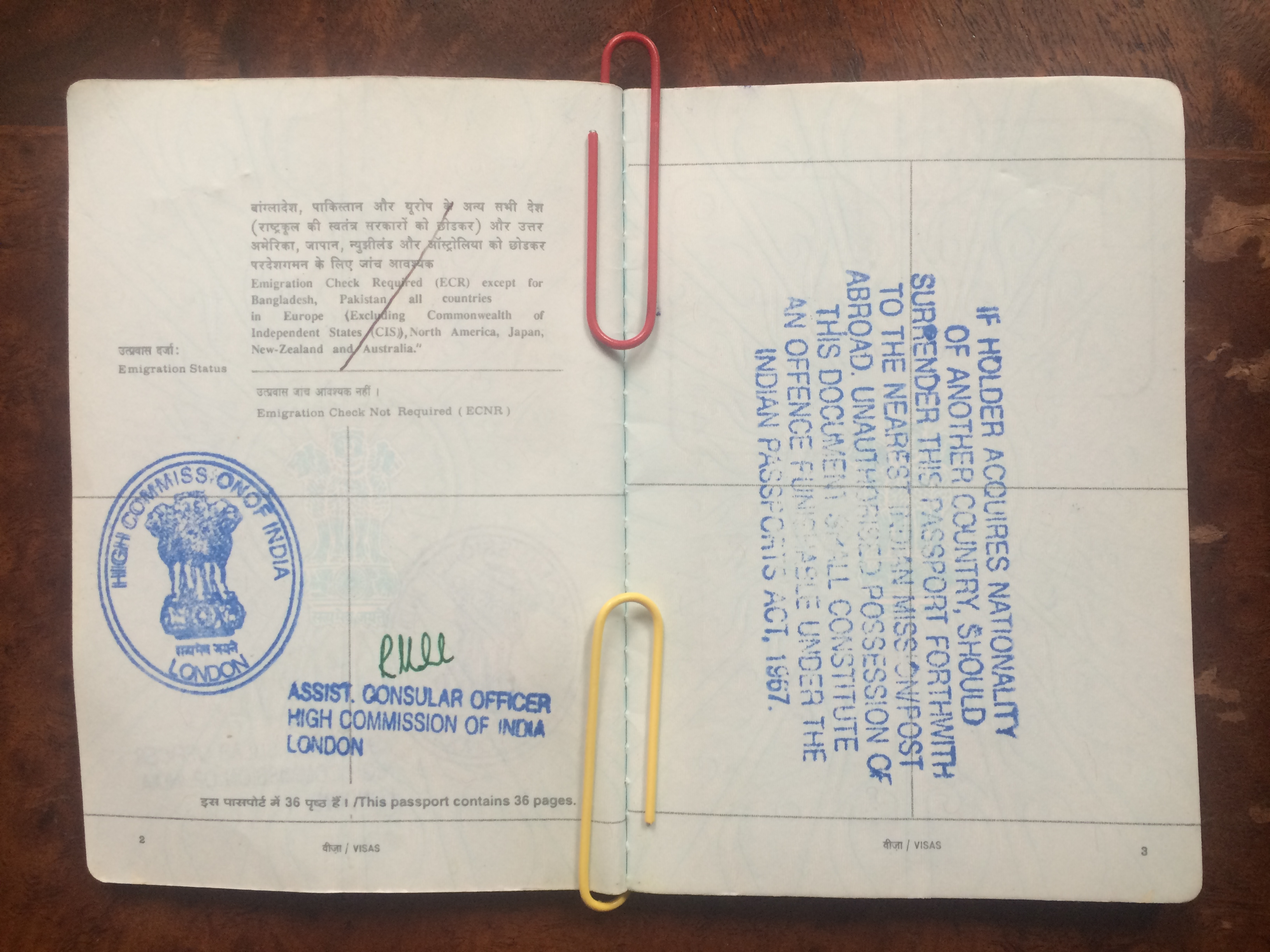 This warning in side the 2006 Republic of India passport of Ankit Love reflets a dark age of Indian history where mid control and fear were the tools used by it leaders to hold on to power. It is now a relic, historical artifact and treasure of great importance to the Kingdom.